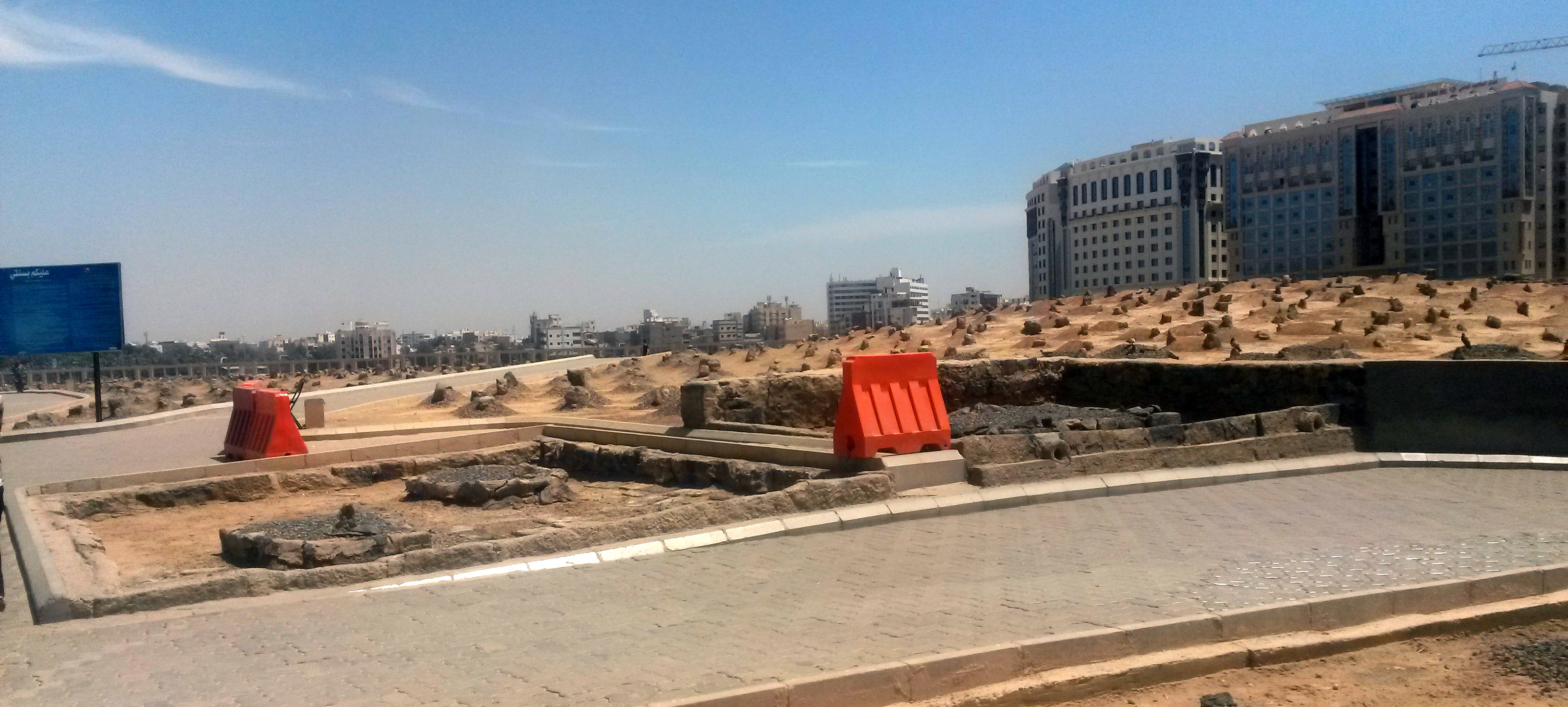 Baqi Mohammad wives & daughters